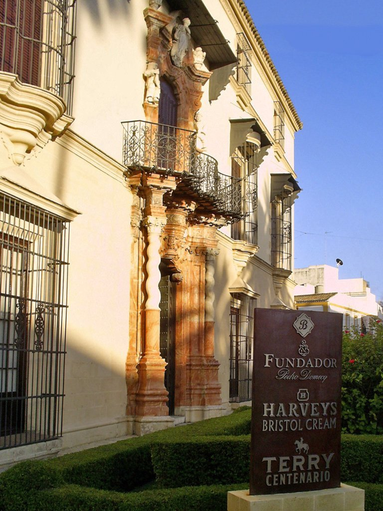 Domecq Palace, built between 1775 and 1778, by Marquis of Montana. It's currently owned by the Domecq Sherry Company. Jerez de la Frontera, Andalusia (Spain).